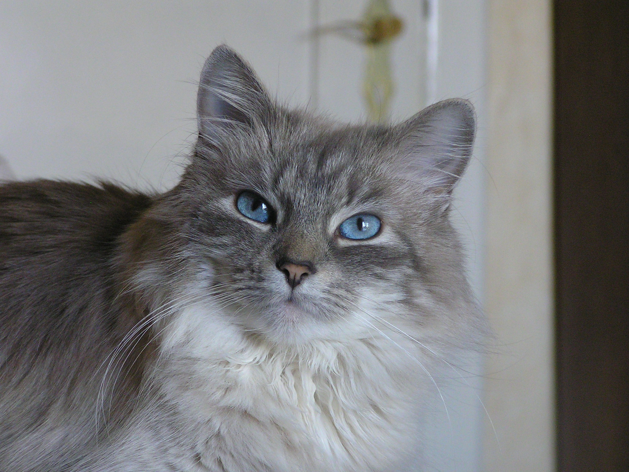 A Neva Masquarade in blue-lynx-point named Aljona Alexejewna vom Hohen Timp